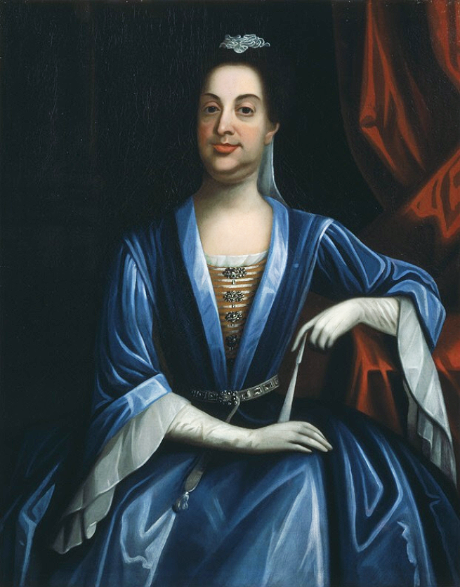 Gallery label Typical of provincial British portraiture of the early eighteenth century, this rather curious portrait of a woman had long been identified as a likeness of Edward Hyde, who carried the title Viscount Cornbury and was appointed Governor of the Province of New York and New Jersey by his cousin, Queen Anne, in 1702. Serving as Governor until 1708, Lord Cornbury was reported to have been "universally detested," and a fondness for cross-dressing accompanied his reputation as "half-witted." Popular legend had it that the Governor discredited his office by publicly appearing in women's attire, strolling Broadway - even opening the Assembly - in his wife's clothes. Hyde is also said to have held his state levees at New York, and received his visitors dressed up in complete female court costume, because he represented the person of a female Sovereign, his cousin Queen Anne. Recent scholarship has both removed some of the blemishes added to Cornbury's gubernatorial abilities by nineteenth century detractors, and reclaimed the likeness as female. However the sitter's identity, like that of the artist who captured her straightforward gaze without softening her features for the sake of a beautiful picture, remains a mystery.